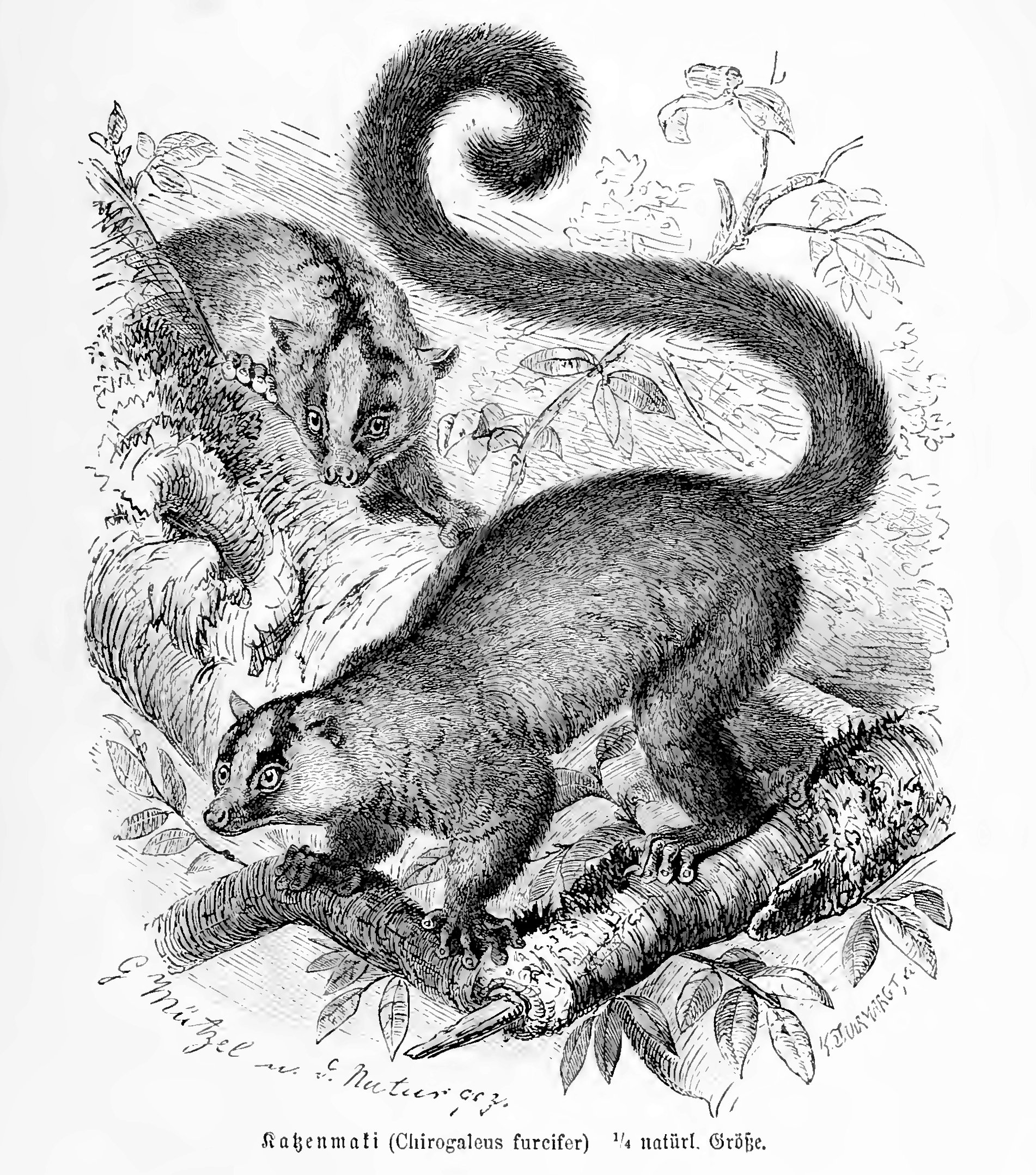 Masoala fork-marked lemur (Phaner furcifer)